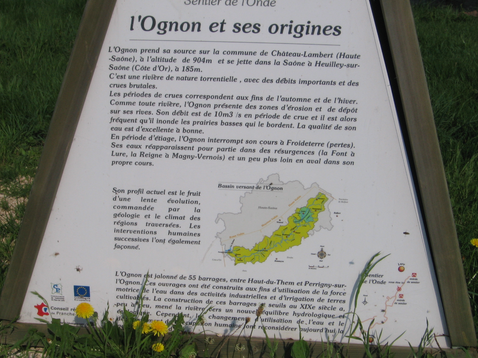 L'Ognon river near Lure, may 2006